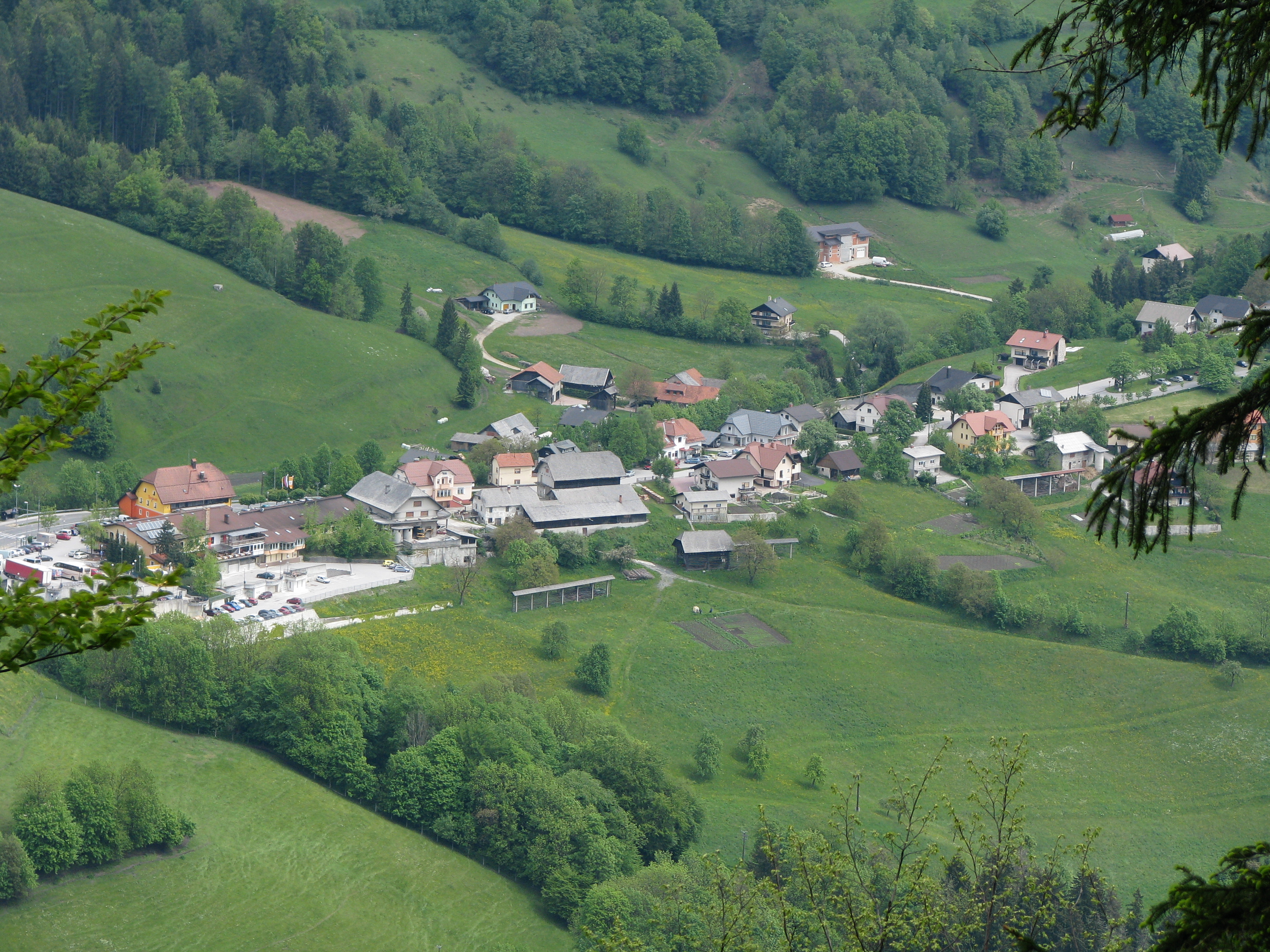 Village of Trojane, Slovenia.